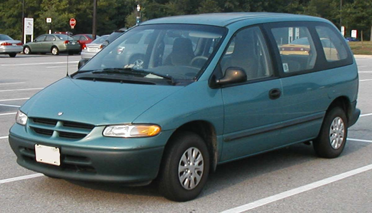 1996 Dodge Caravan photographed in USA.